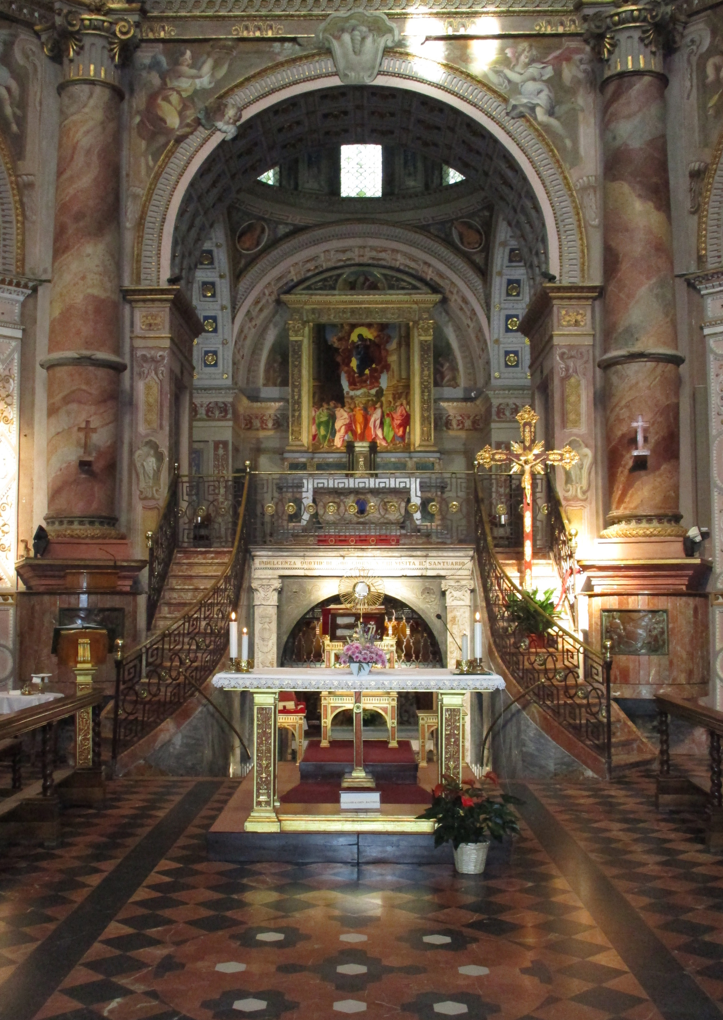 Interior of Sanctuary Santa Maria della Croce in Crema, Italy, during an Eucharistic adoration